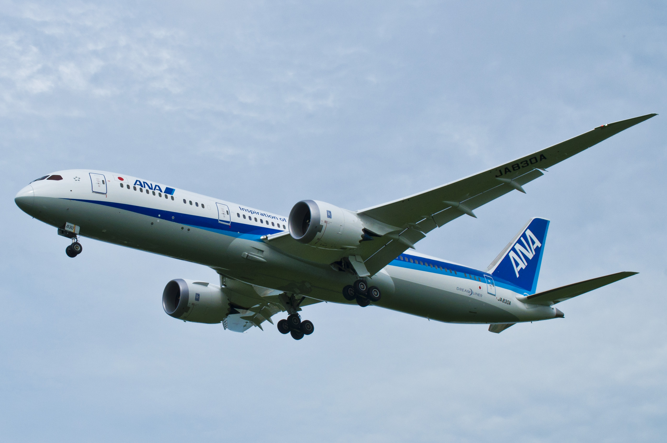 ANA's first Boeing 787-9